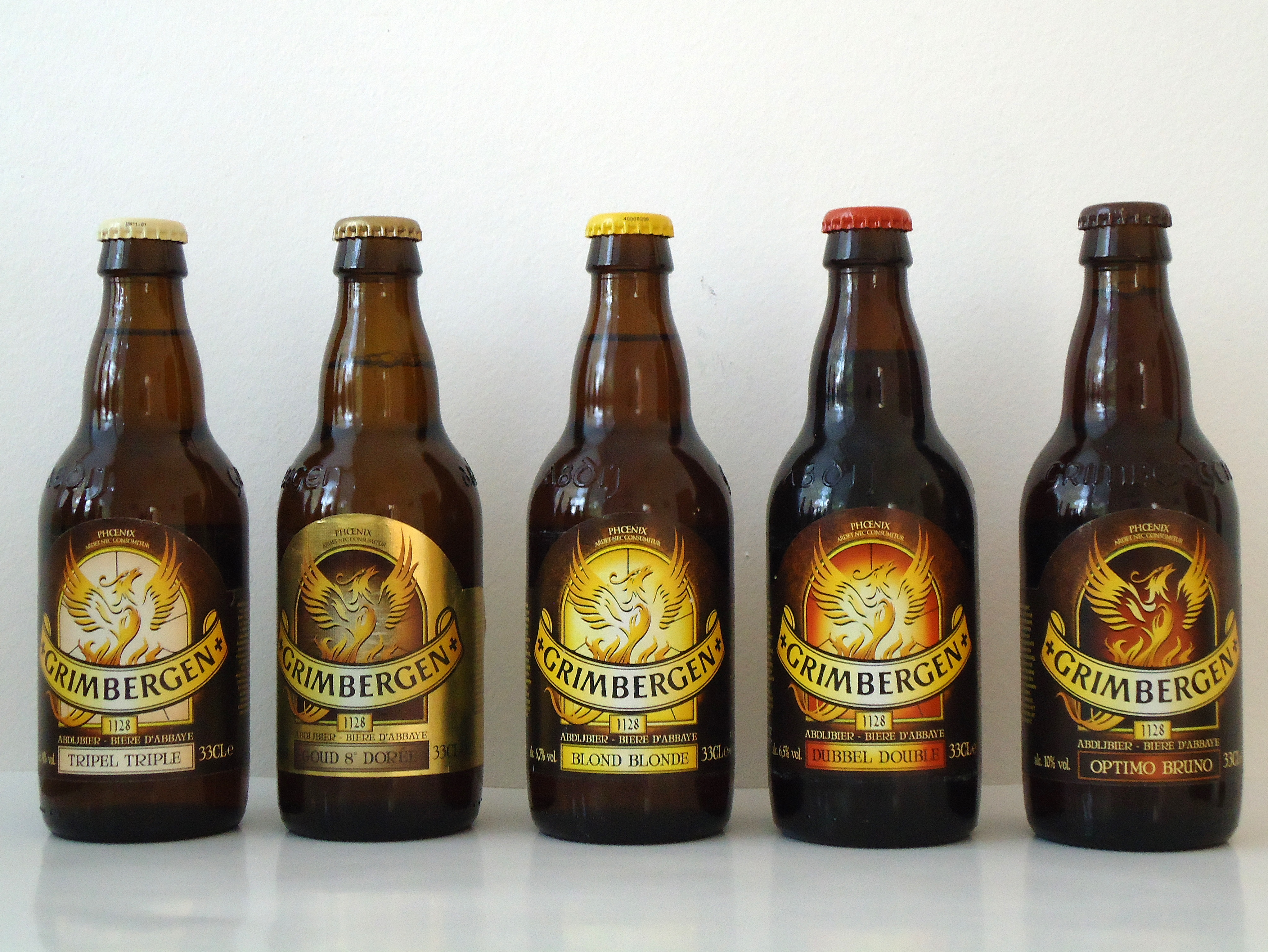 Grimbergen beers